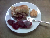 Picture that I took using my Motorola iPod cellular telephone of a Chines Pie that my sister-in-law made.